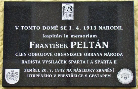 Commemorative plaque dedicated to František Peltán (* 1913 - † 1942). He was the resistance fighter, radio operator and a member of an illegal group Three Kings. The plaque is fixed on the wall of the birthplace (house) in Czech town Jindřichův Hradec in the street "9. května 223/II".